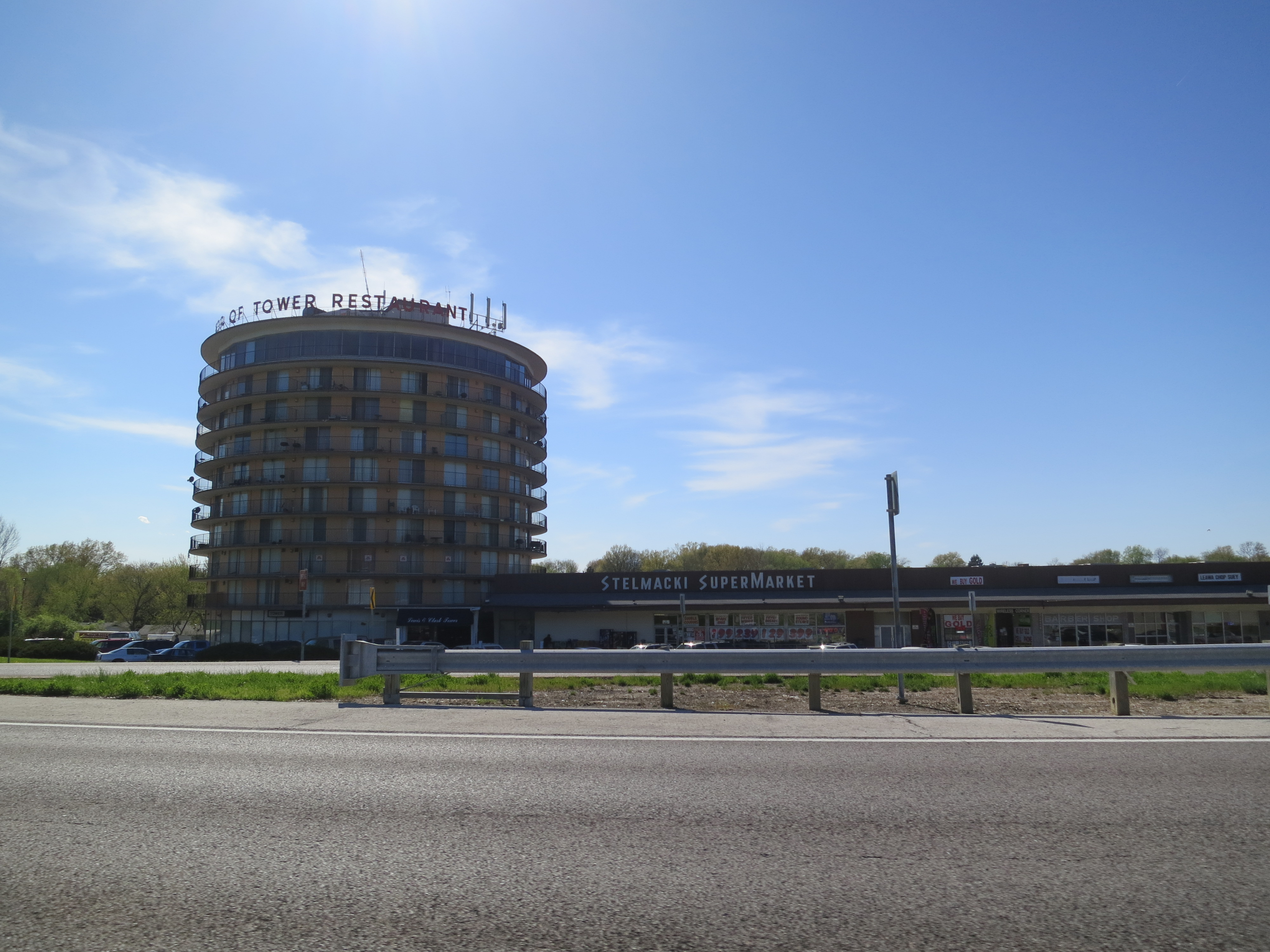 Top of Tower